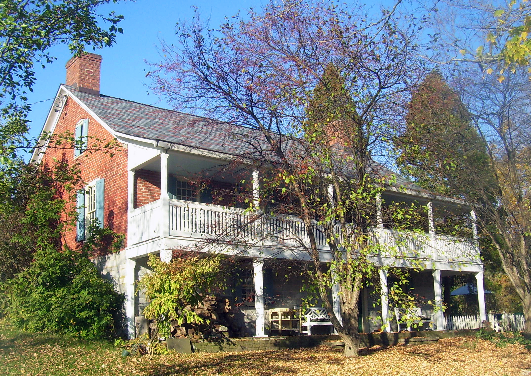 Ezra Clark House, in the Coleman Station Historic District near Millerton, NY, USA